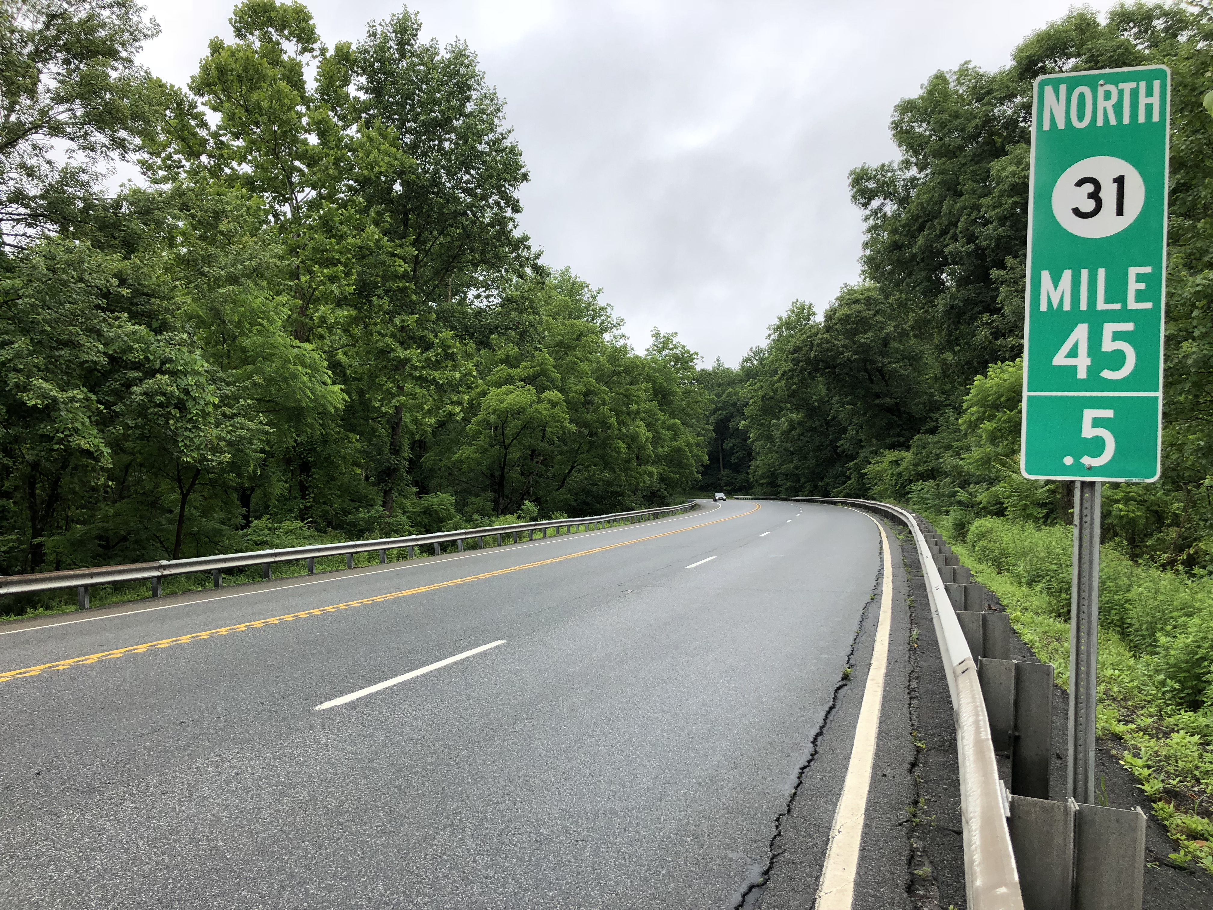 View north along New Jersey State Route 31 between Warren County Route 628 (Jackson Valley Road) and Tunnel Hill Road in Mansfield Township, Warren County, New Jersey